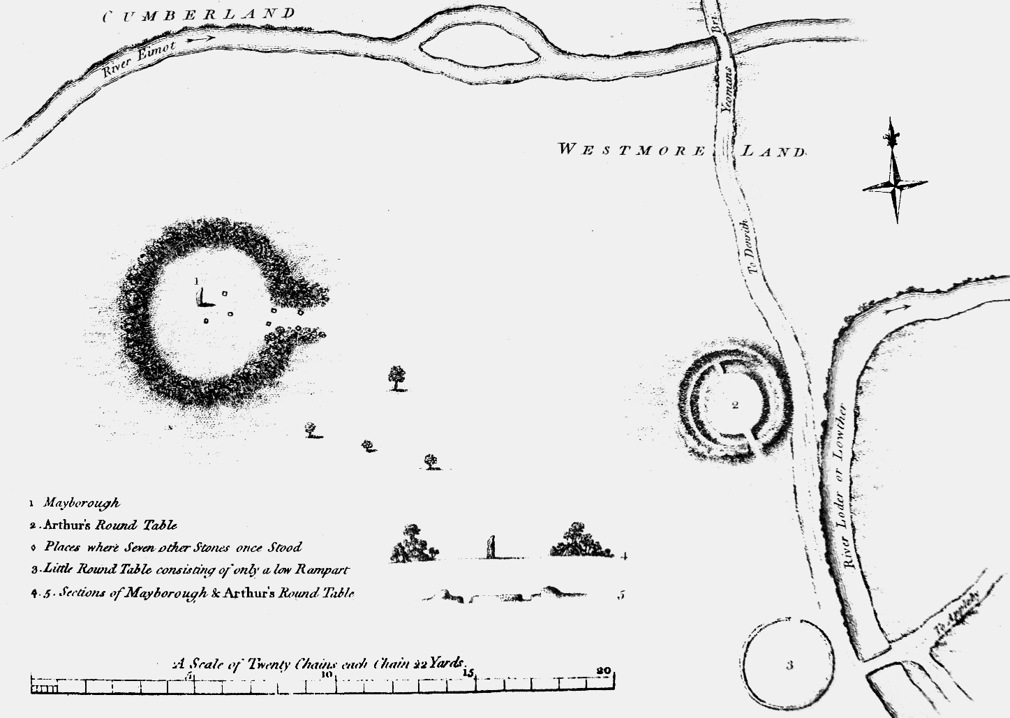 Plan and sections of Mayburgh Henge and King Arthur's Round Table prehistoric monuments, near Penrith, Cumbria, UK